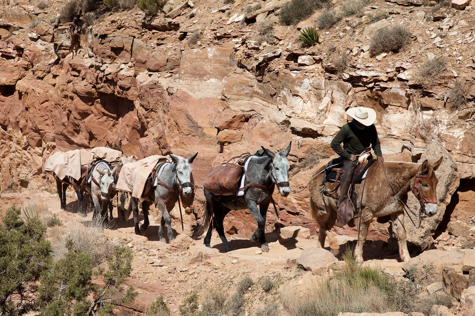 Grand Canyon region, Kaibab National Forest, on day 2 of an outbound tourist camping excursion mule train along the (south bank and) 'South Kaibab Forest' trail. The view captures the trailing pack animals following along behind the tourist's mules.